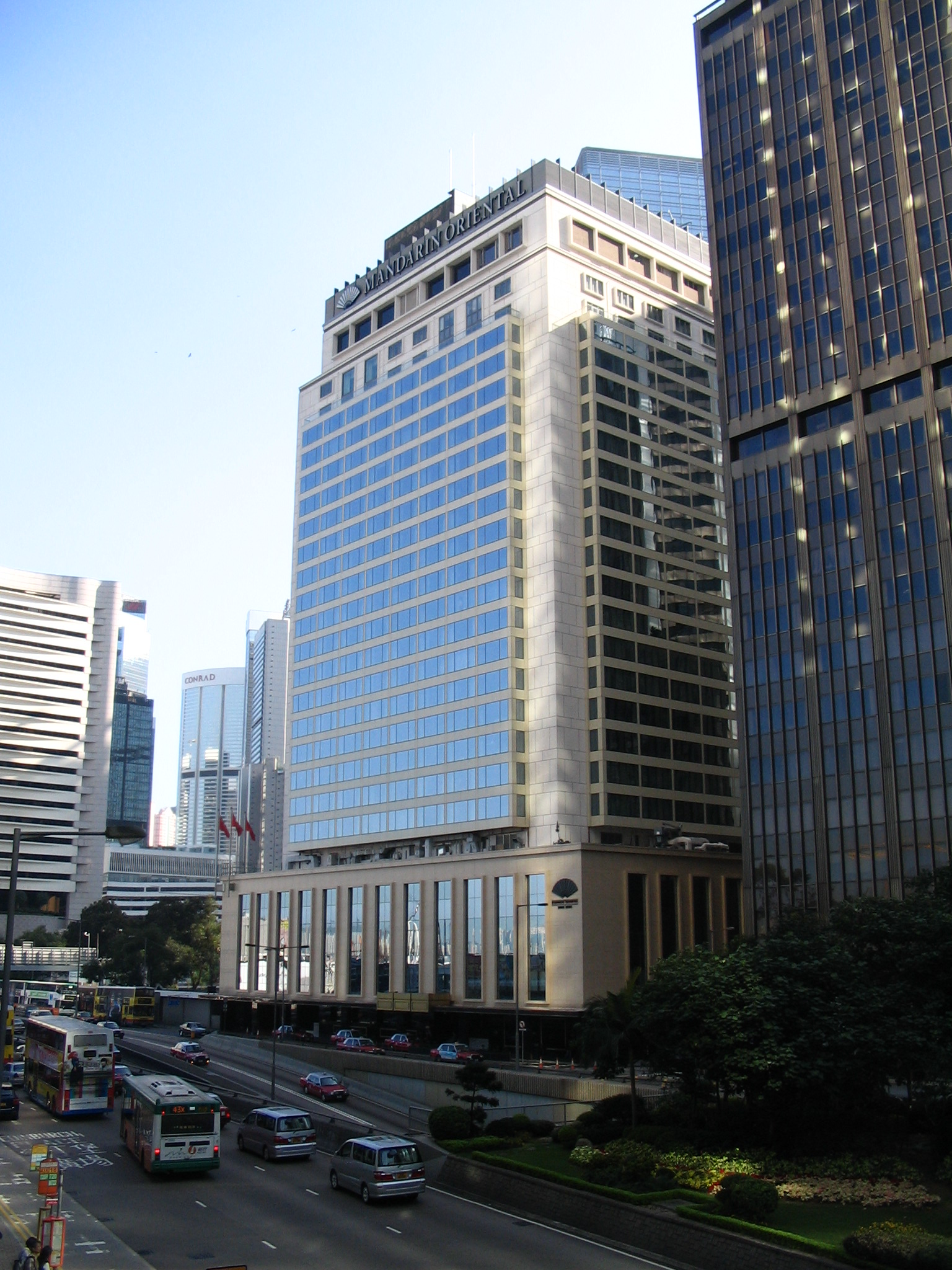 Photo of Mandarin Oriental Hong Kong